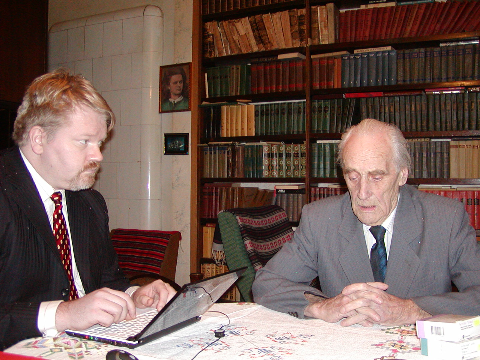 Arnold Meri and Johan Bäckman on 19 January 2008. In the backgroung a portrait of Lydia Koidula.